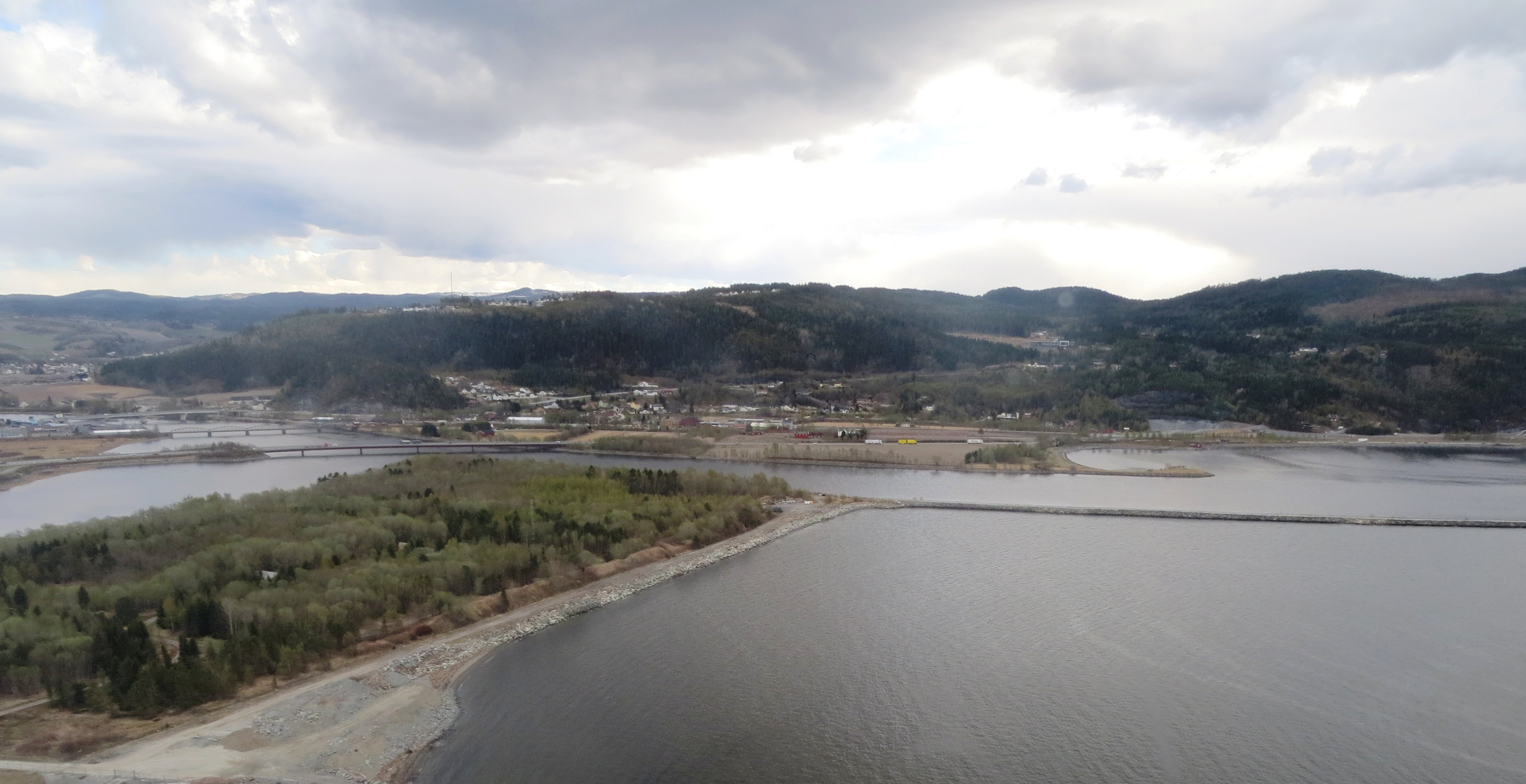 Image form Stjørdal municipality, Nord-Trøndelag county - Norway